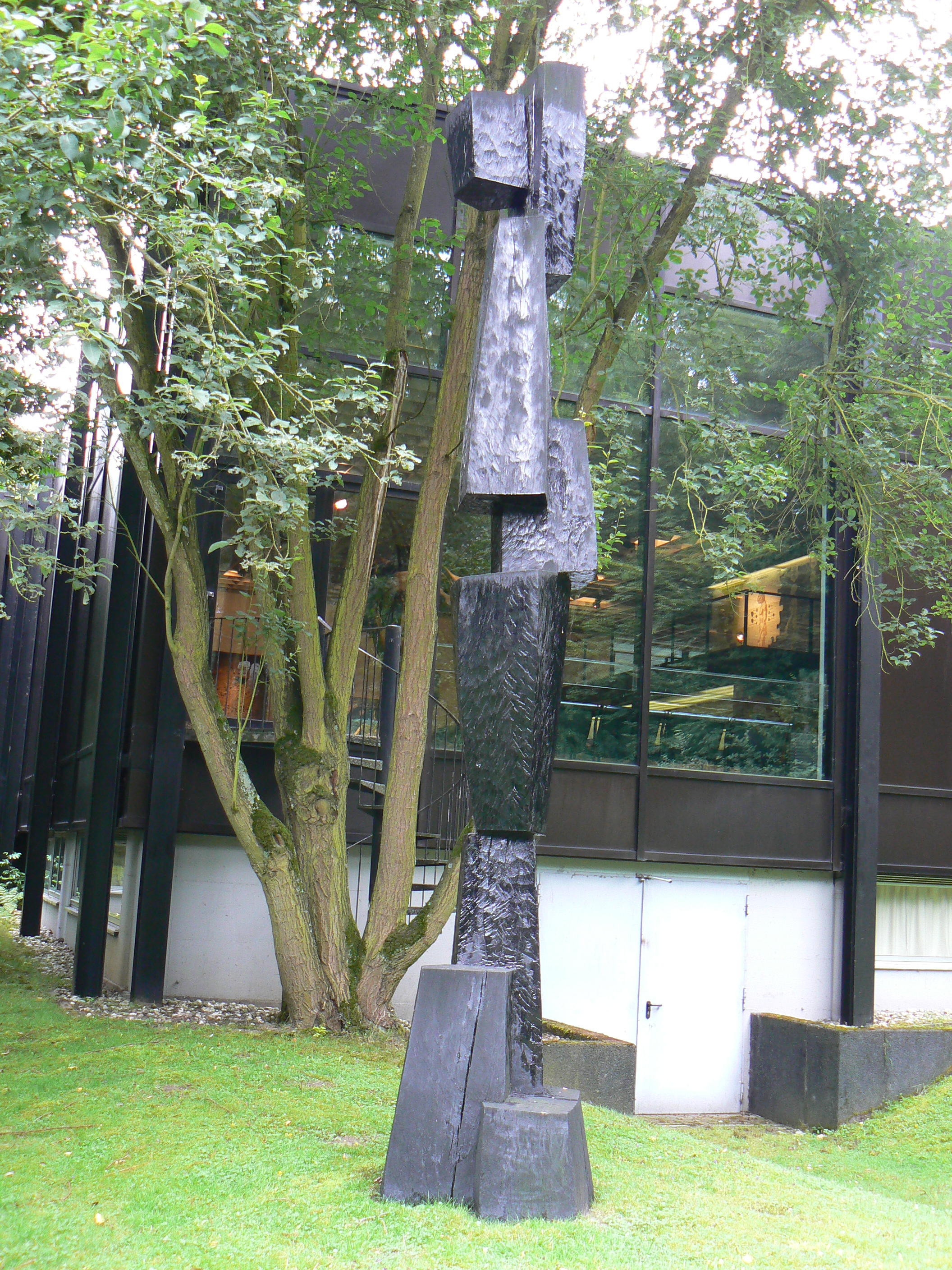 sculpture Figur 1961/1981 by Hans Steinbrenner in sculpture park at Quadrat Bottrop in Bottrop/Germany